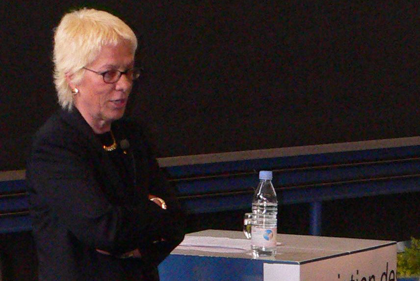 Carla del Ponte, procuror for the International Criminal Tribunal for the Former Yugoslavia, giving a talk at the University of Lausanne (18th of April 2005).